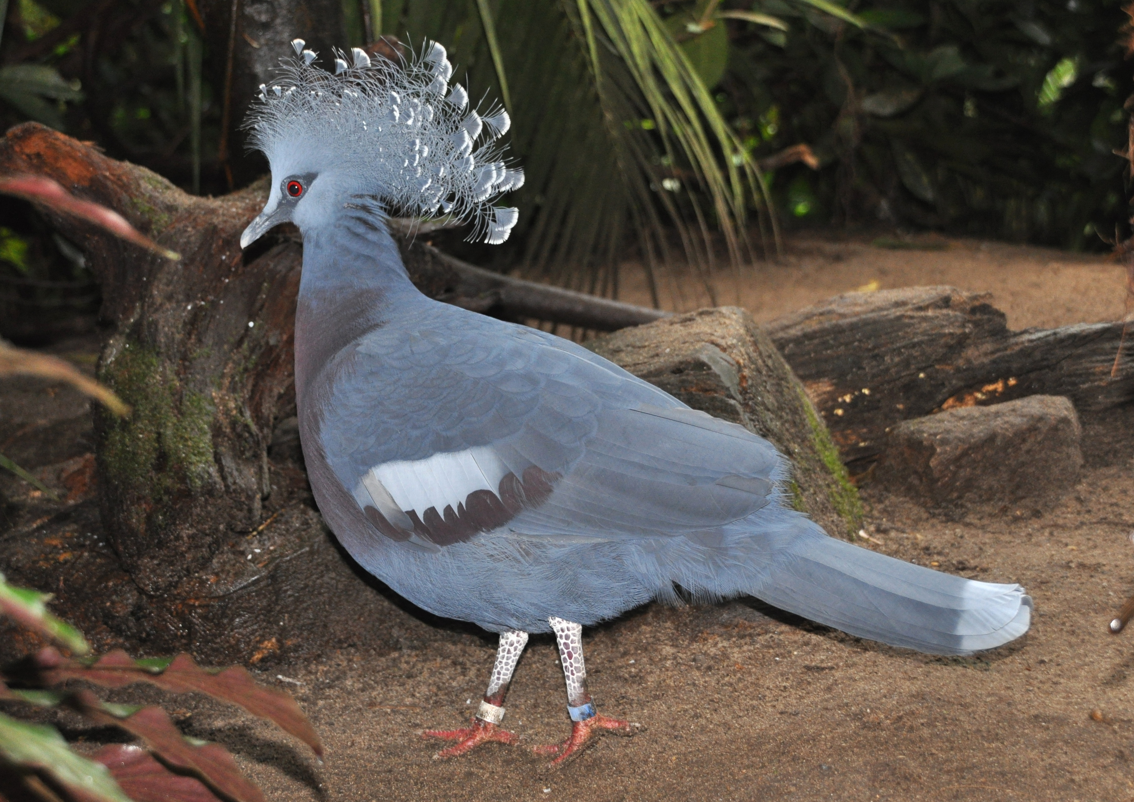 Victoria Crowned Pigeon (Goura victoria beccarii) in the Walsrode Bird Park, Germany.